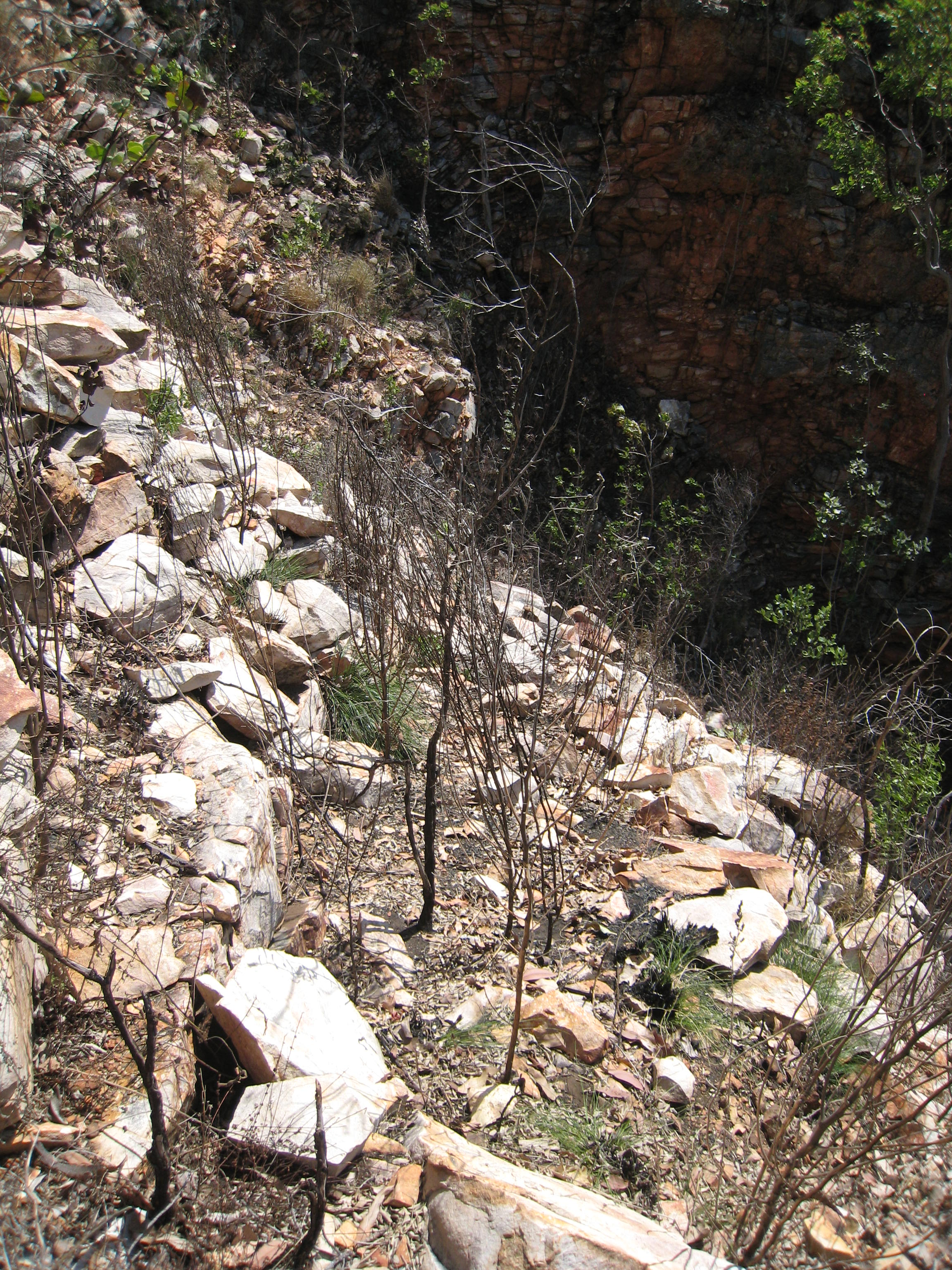 Packhorse track, Bradshaw station. (visible after recent fire) Here the path is clearly marked, with drystone retaining walls above and below the path. New trees (grevilleas here) also compromise the integrity of the zig-zag track.